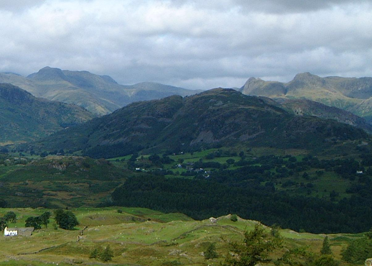 Personal photograph taken by Mick Knapton